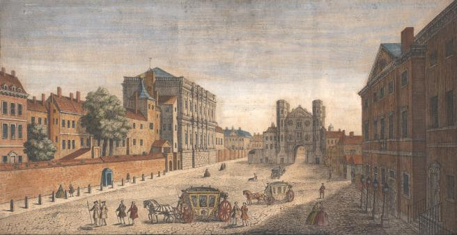 A view of Whitehall, looking south, in 1740. The Banqueting House is on the left. The Gateway across the street has been removed and Whitehall and its continuation Parliament Street are now roughly the breadth of the section of road in the foreground all the way to Parliament Square.